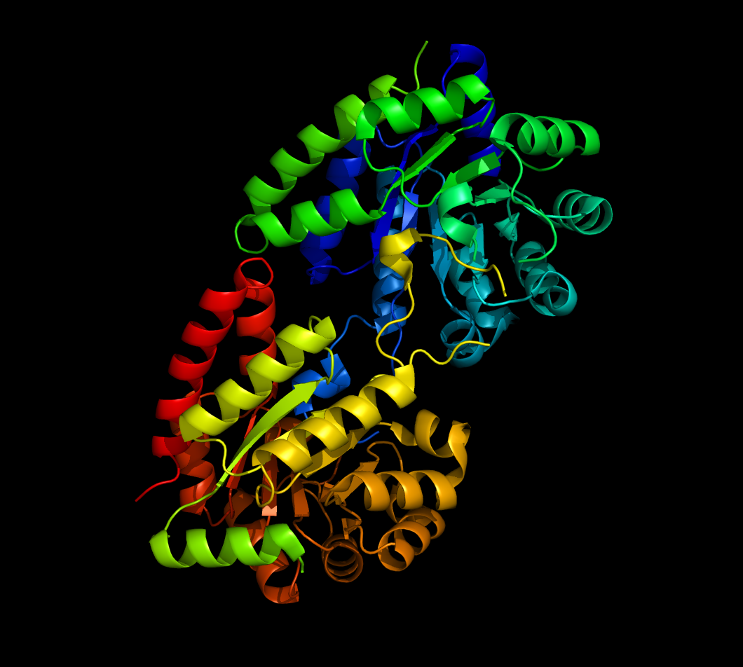 Tryptophan synthase, PDB 1WQ5, created by User: Blastwizard raytraced using using Pymol